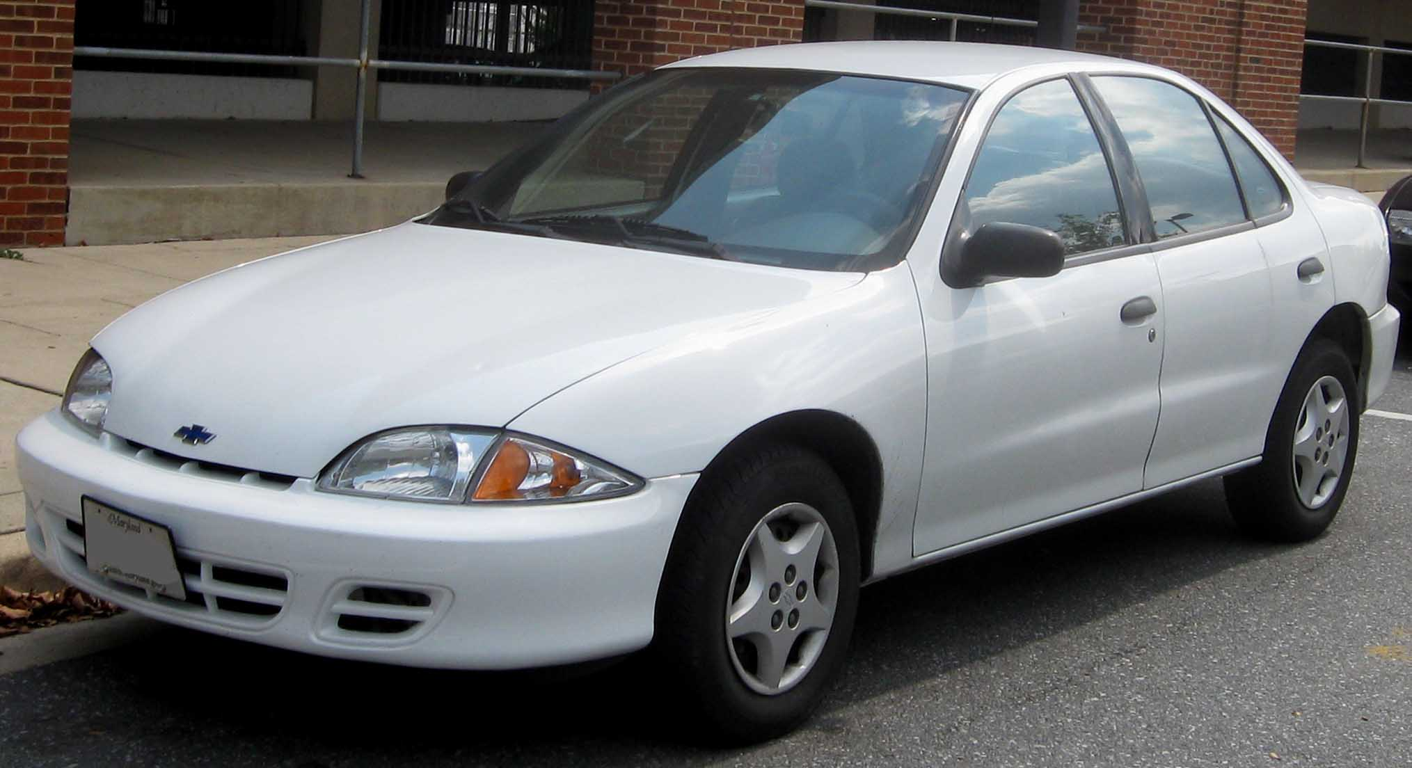 2000-2002 Chevrolet Cavalier photographed in College Park, Maryland, USA.